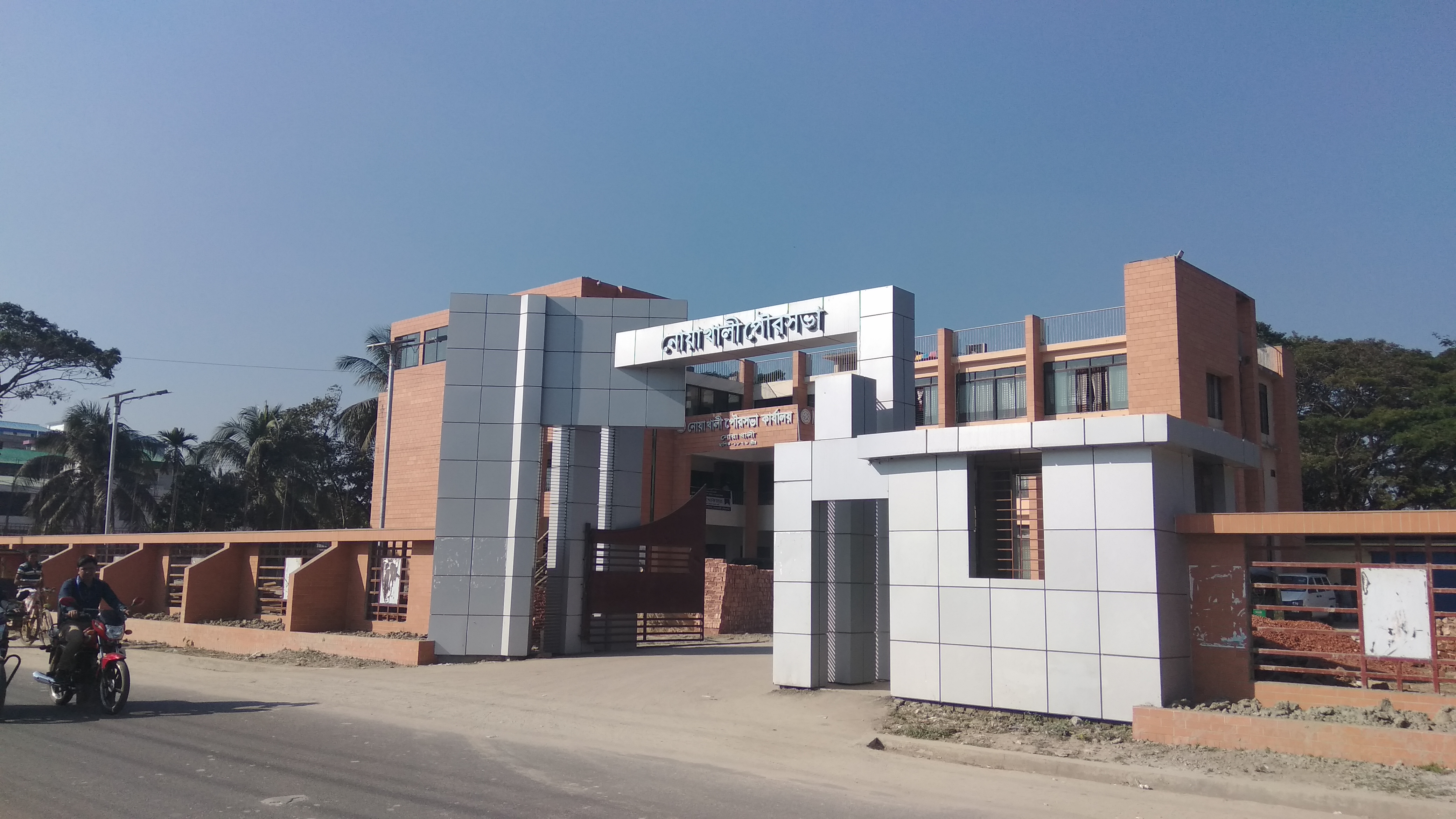 This is an image of Noakhali City corporation office.